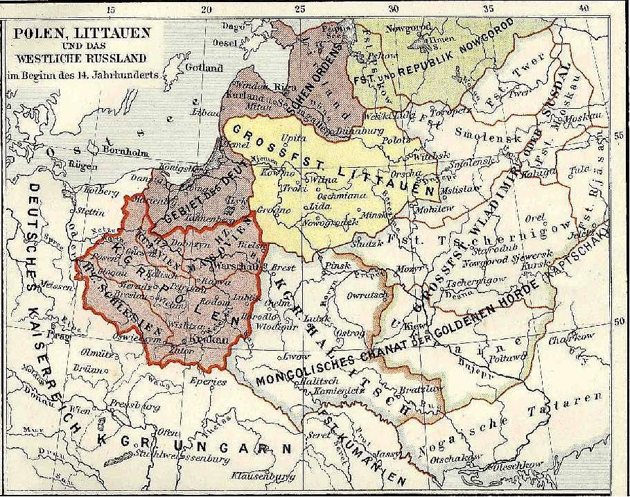 Map of Poland in the 14th century after the loss of Lubusz Land and temporarily loss of Pomerelia but before the loss of Silesia.